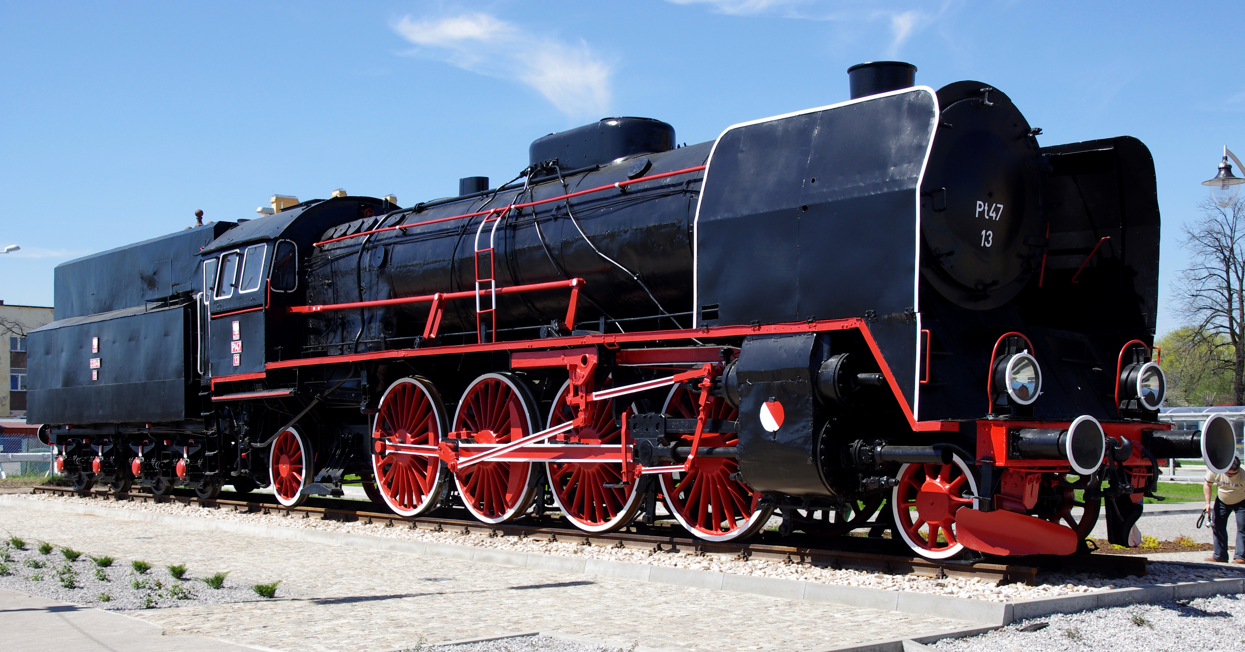 Pt47 locomotive at the railway station in Skarżysko-Kamienna